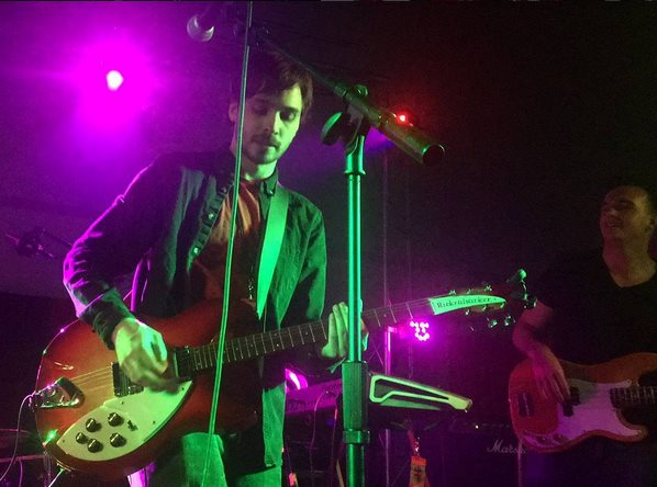 Red Vox live at Too Many Games